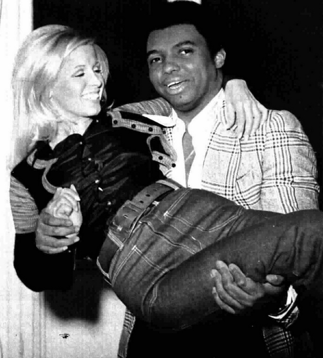 Italian singers Wess and Dori Ghezzi